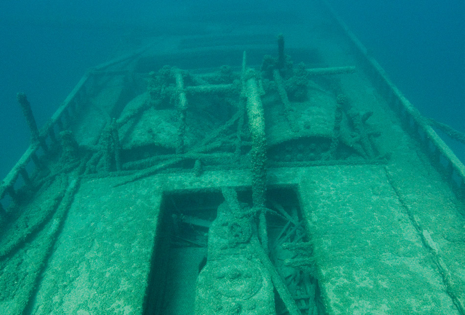 The wreck of the Grecian.. Caption in source document: Grecian (1891-1906; 100-foot depth) in shallower water with boiler deckhouse gone, providing good access to the two boilers and many features below. In the foreground is the ship’s triple expansion steam engine.